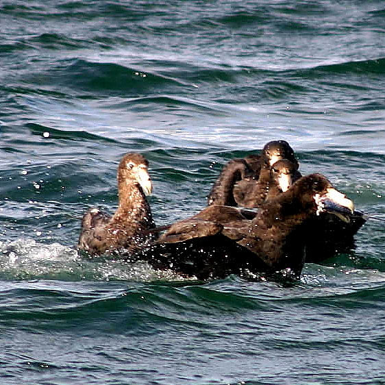 Southern Giant-Petrel at Beagle Canal - Tierra del Fuego - Argentina